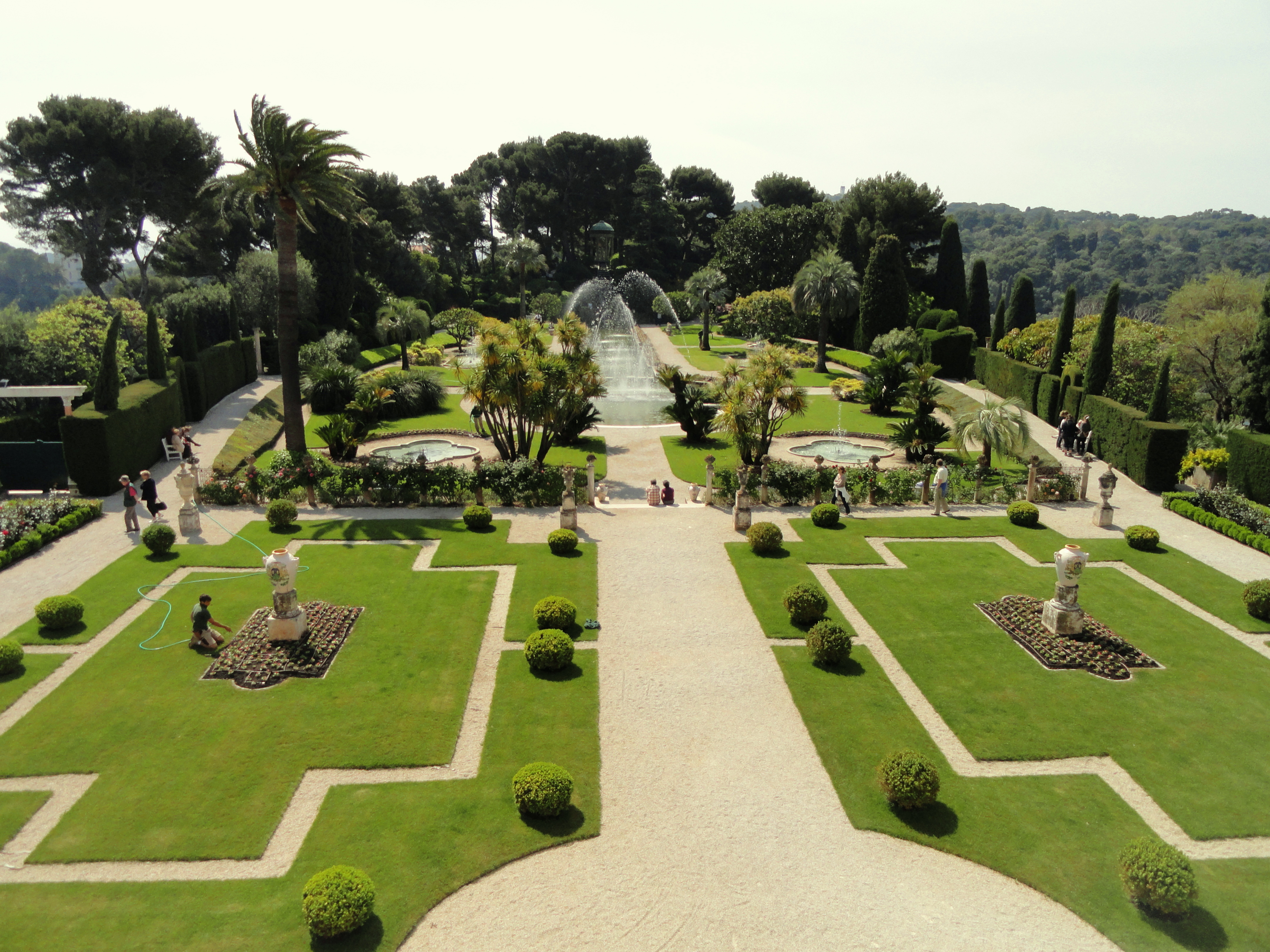 Garden view of the Villa Ephrussi de Rothschild, Saint-Jean-Cap-Ferrat, France.